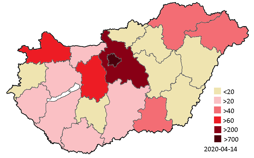 COVID-19 HUN April 14.